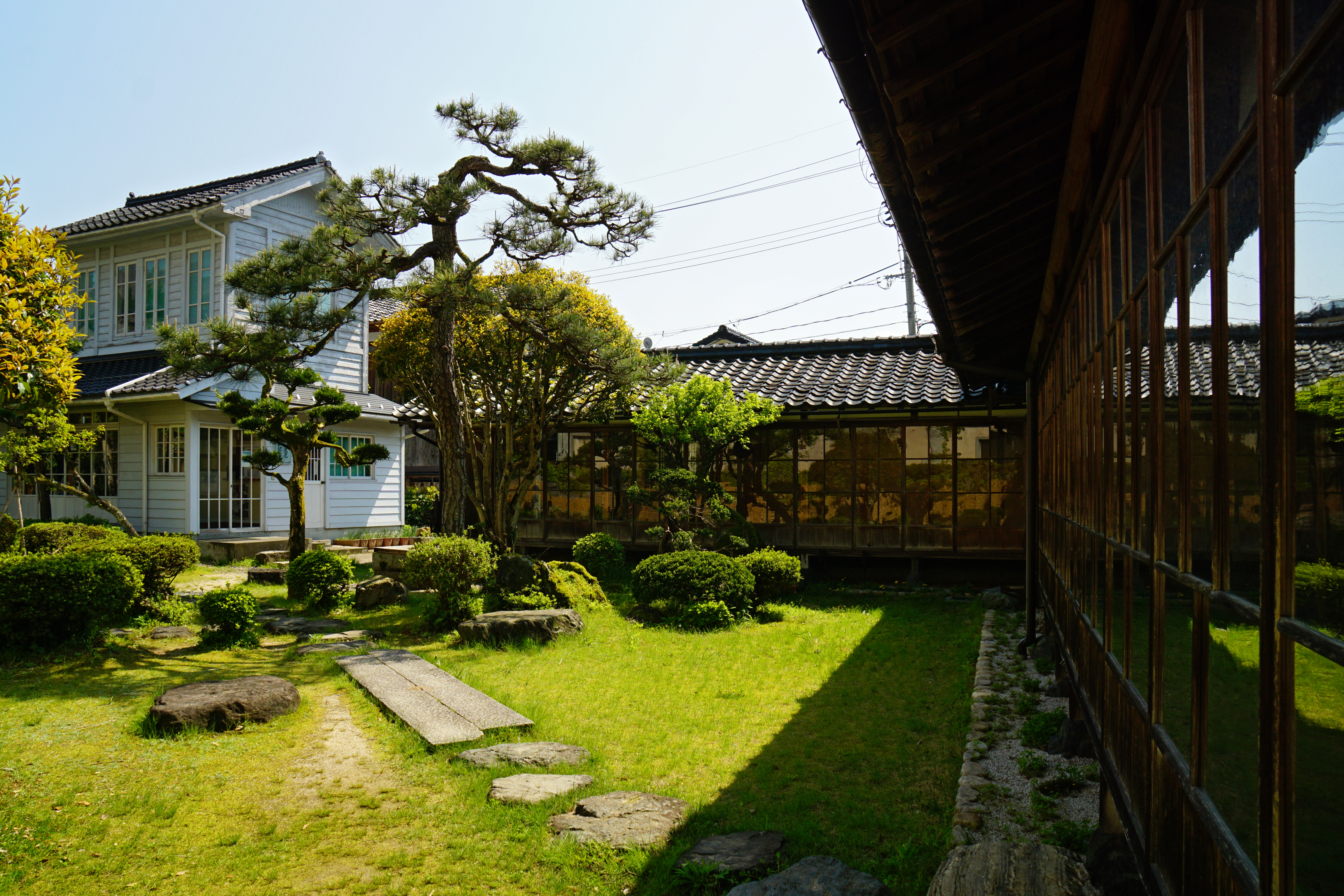 Old Shioya Demise in Chizu, Tottori prefecture, Japan